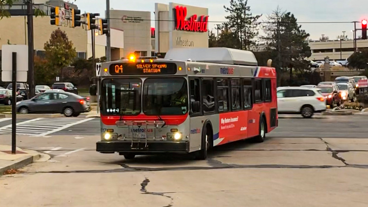 WMATA 2005 New Flyer DE40LF 6017 on Route Q4 At Wheaton station